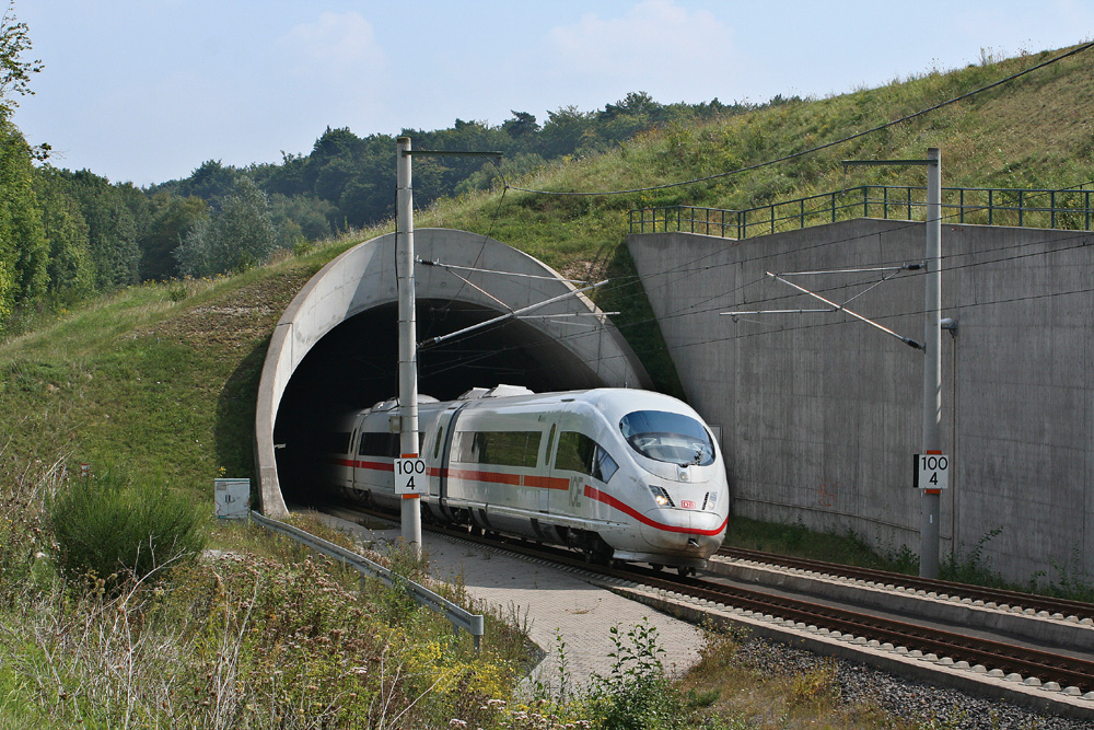 The north portal of the Elzer Berg Tunnel on the Cologne-Frankfurt high-speed railway line